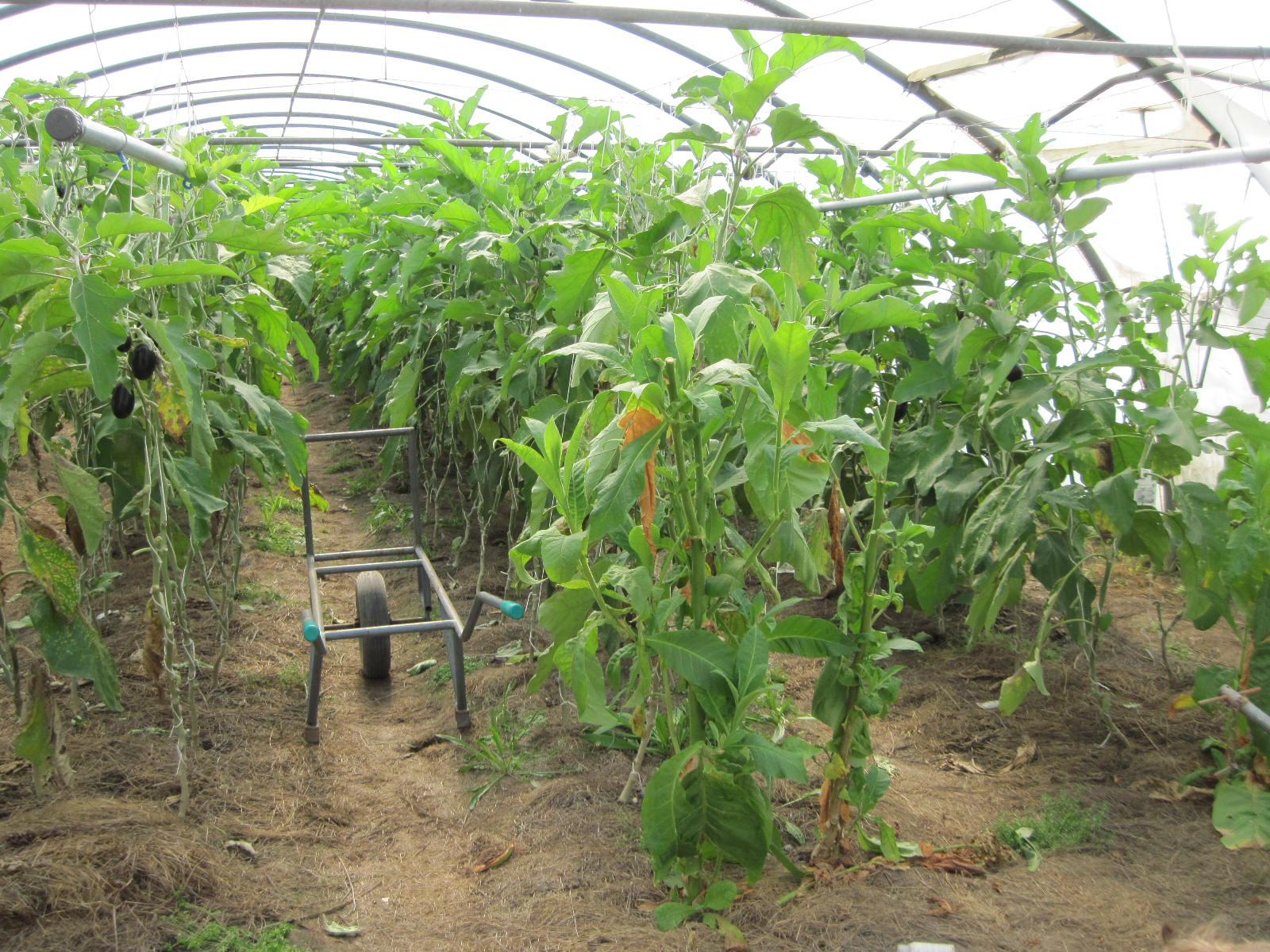 Organic production of vegetables in a greenhouse in Lower Austria